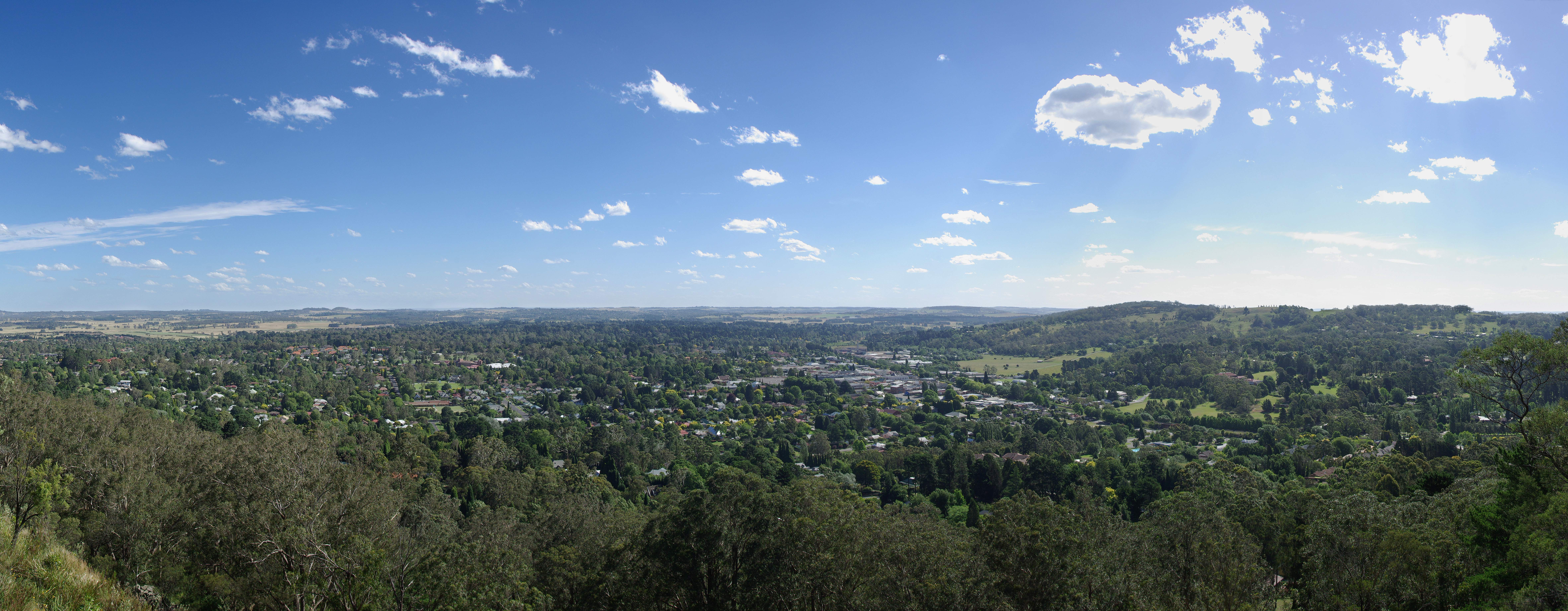 This is a view of the town of Bowral, NSW from a viewing platform on Mount Gibraltar (not to be confused with the Gibraltar Peak a few images down my photostream).